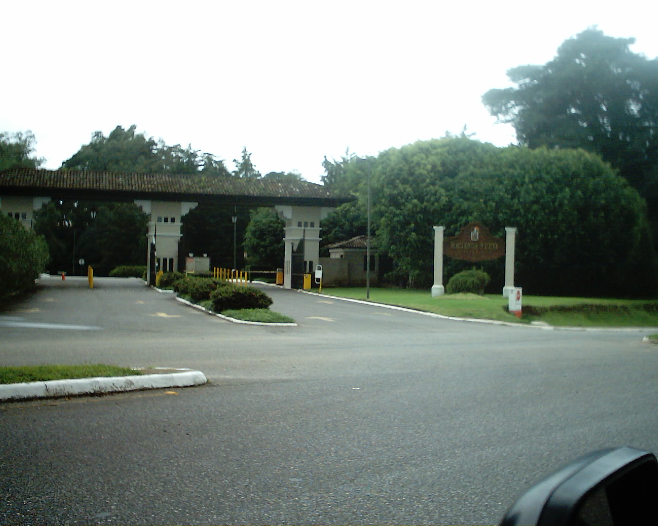 Entrance of Hacienda Nueva Country Club, San José Pinula, Guatemala